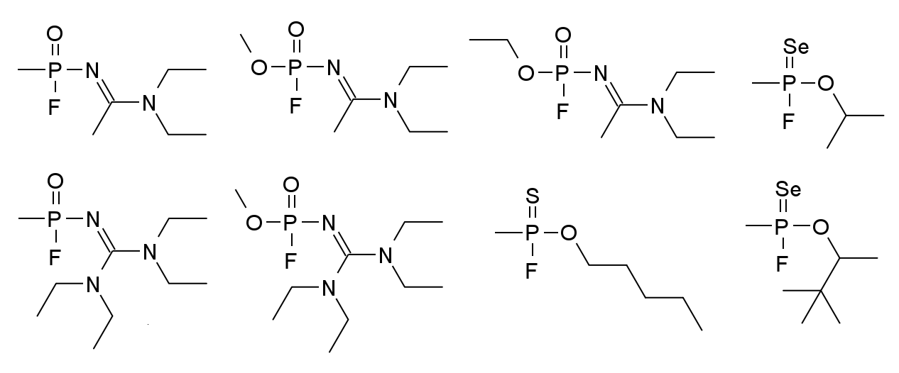 i drew this anyone can use it